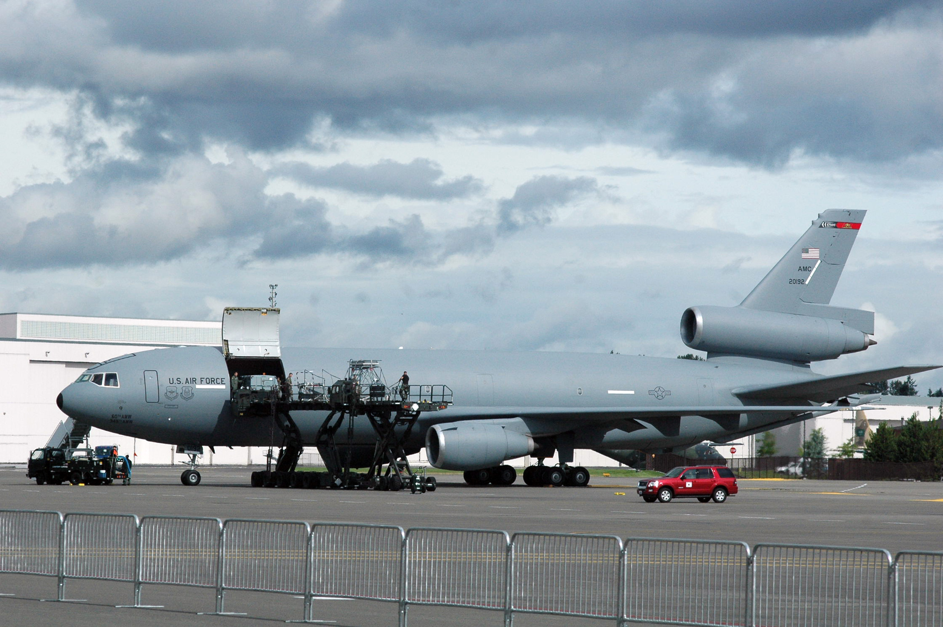 U.S. Air Force airmen work to unload a McDonnell Douglas KC-10A Extender (s/n 82-0192) at McChord Air Force Base, Washington (USA), after the aircraft arrived from Travis Air Force Base, California (USA), to tke part in the "Air Mobility Rodeo 2007" exercise, on 21 July 2007. Note that the KC-10A wears the markings of both the 60th Air Mobility Wing and the 349th AMW (USAF Reserve) from Travis AFB.